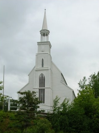 Holy Trinity Anglican Church, Stanley Mission, Saskatchewan, Canada, taken in 2007